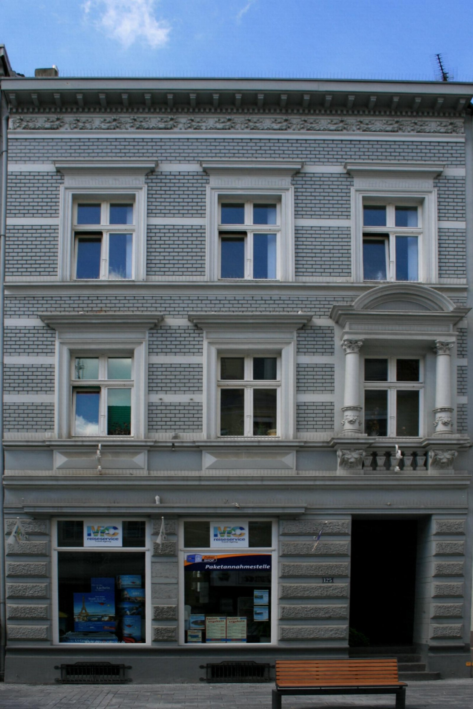 Cultural heritage monument No. E 007 in Mönchengladbach